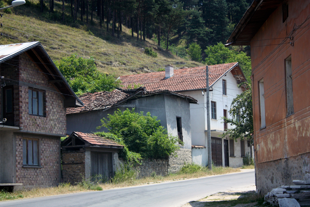 Rakitovo outskirts